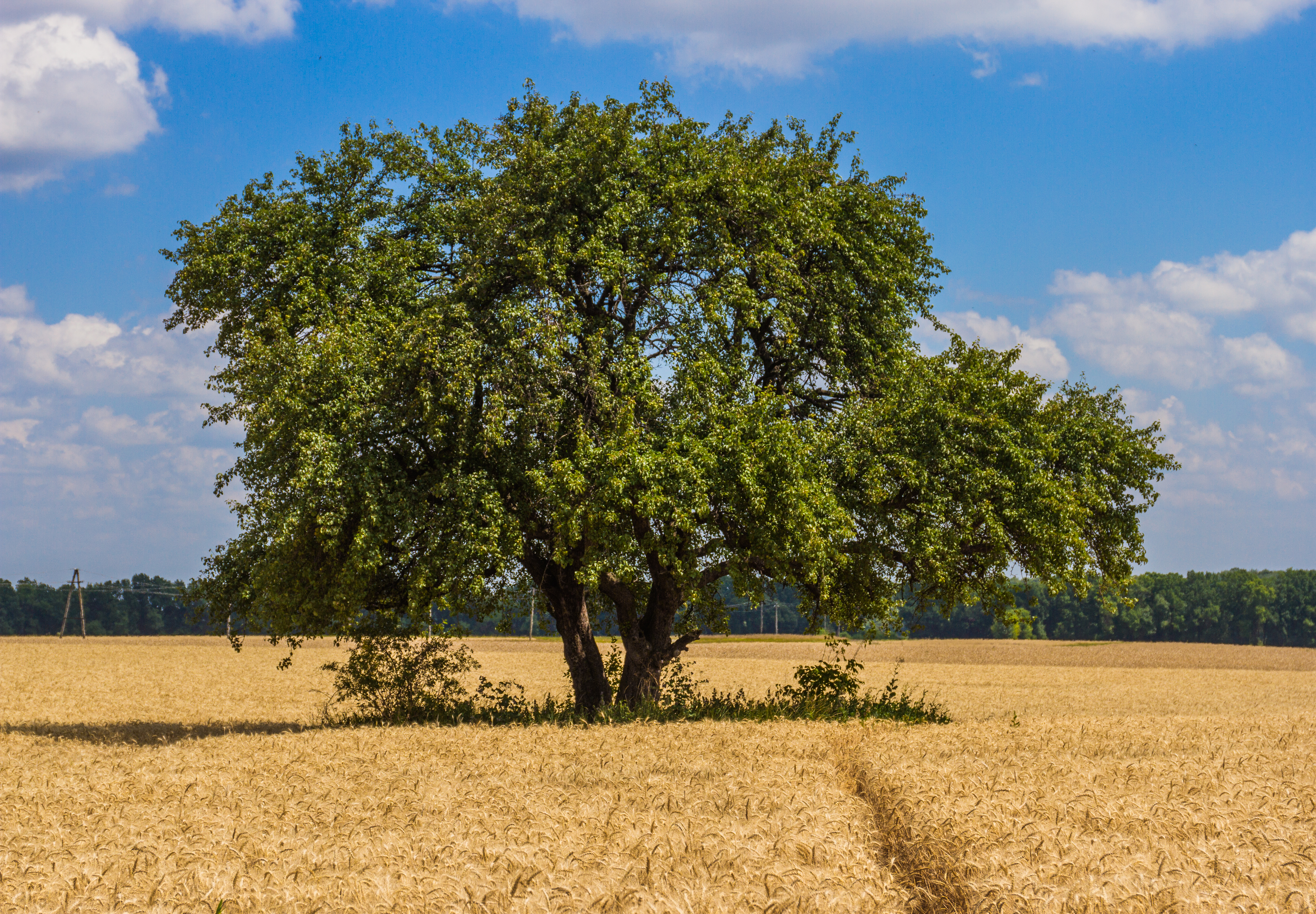 The tree elm (ulmus) is among the wheat (Triticum L.)